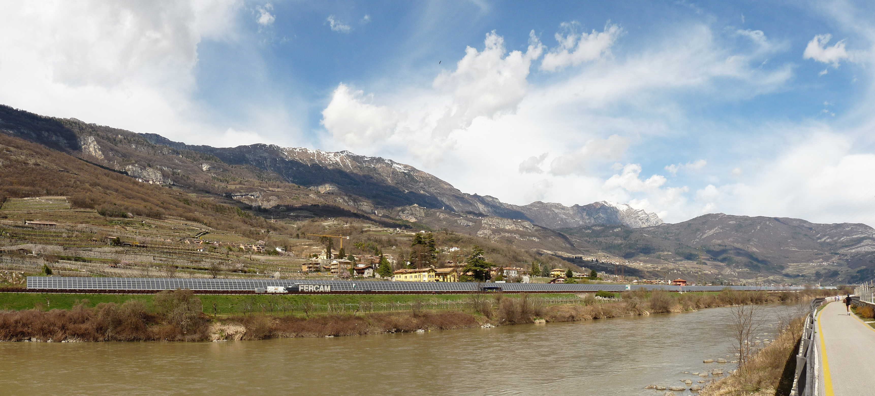 Rovereto (Italy): photovoltaic panels along the Brennero-Modena highway